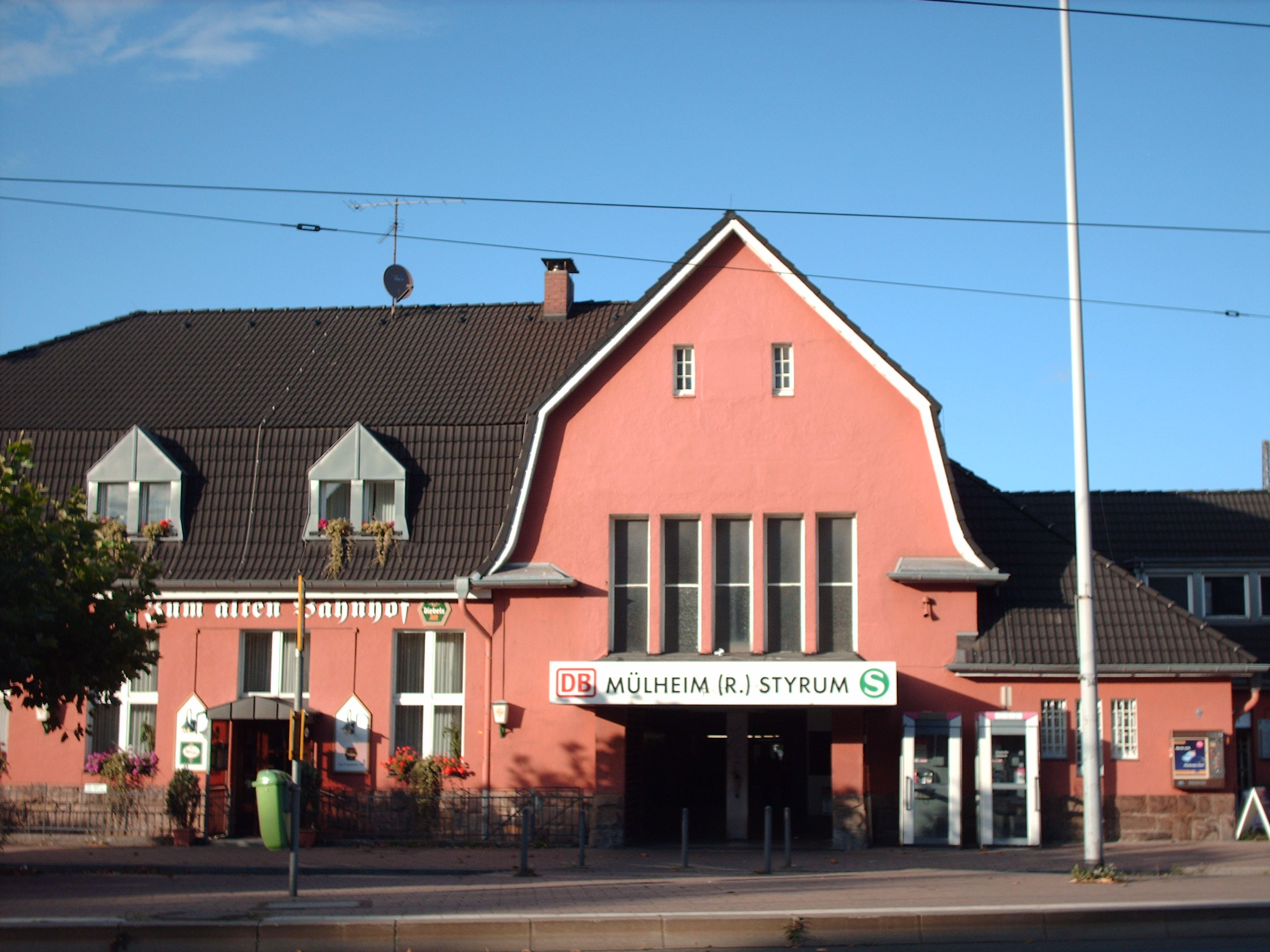 Mülheim (Ruhr) Styrum station, Mülheim (Ruhr), Germany check usage